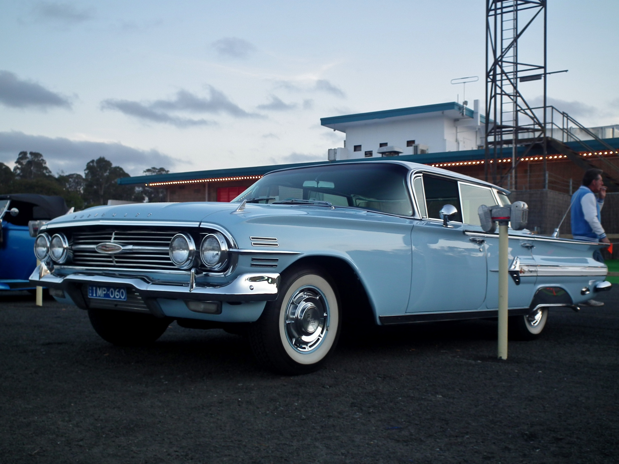 1960 Chevrolet Impala hardtop sedan. Taken at the Atura Drive-In at Blacktown during a special showing of "American Graffiti".